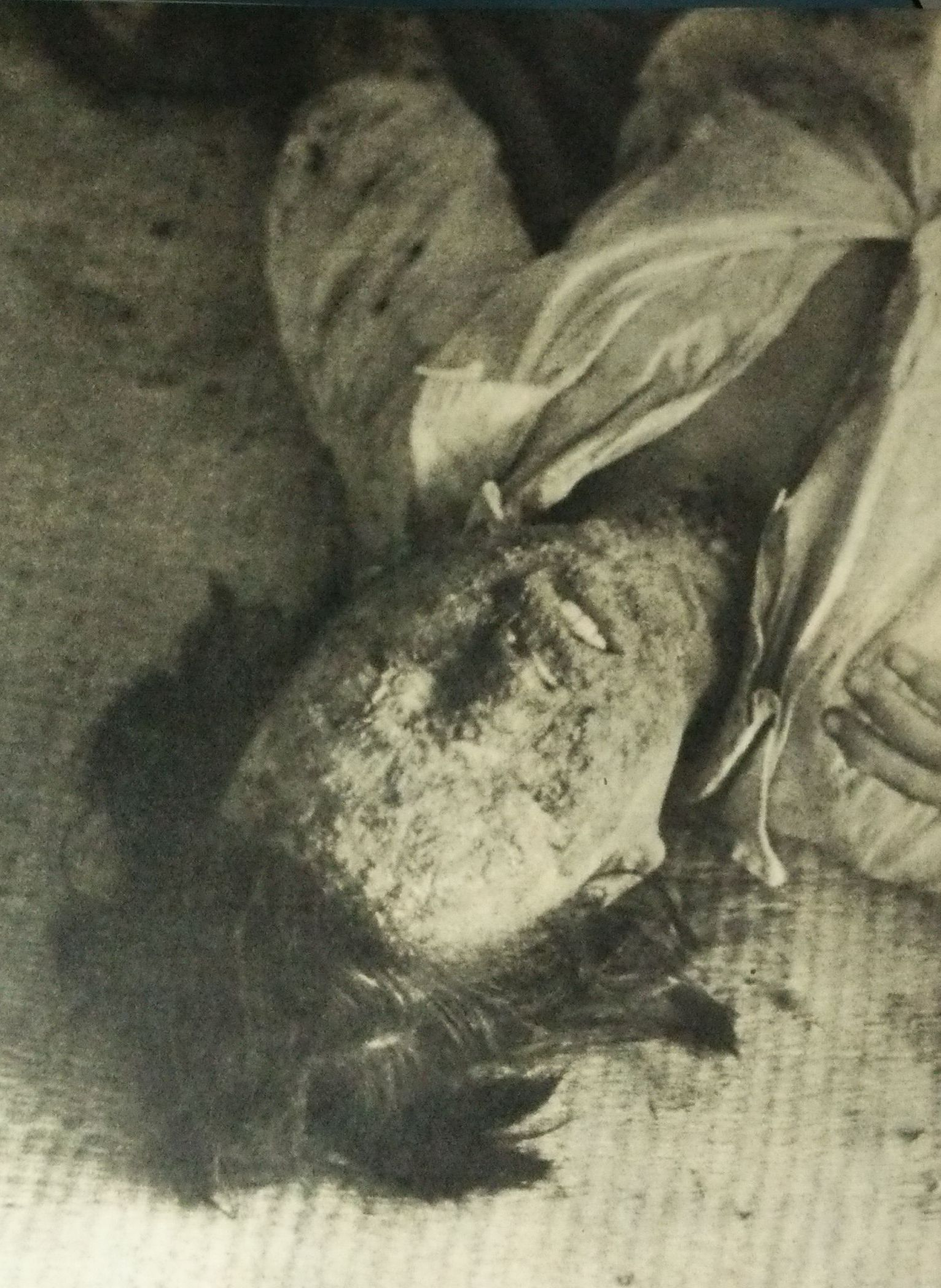 A mobilized school girl suffered burns to face, Hiroshima Red Cross Hospital, 9 August 1945